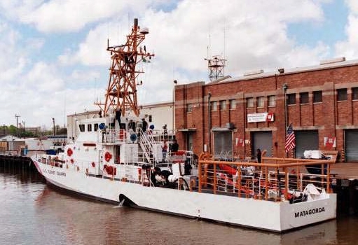 U.S. Coast Guard Cutter Matagorda, the first 110-foot cutter to be converted to 123-feet, at Integrated Support Command New Orleans, March 27, 2004. The crew of the Matagorda made a brief stop in New Orleans on the way to their homeport in Key West, Fla.